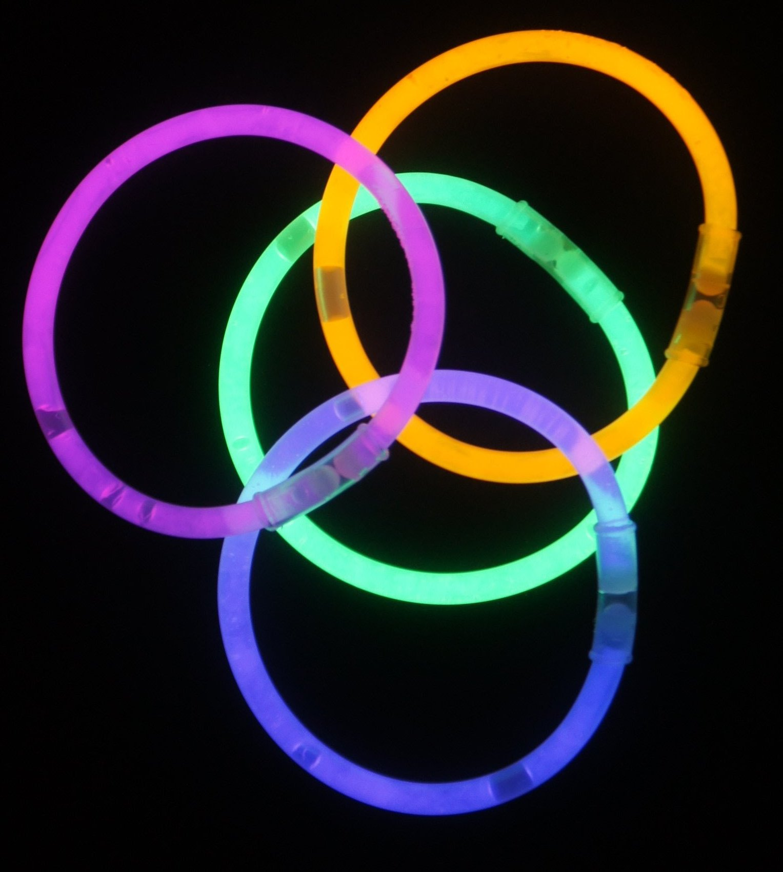 Various glowsticks (Purple, green, orange, blue) on a black background in rings